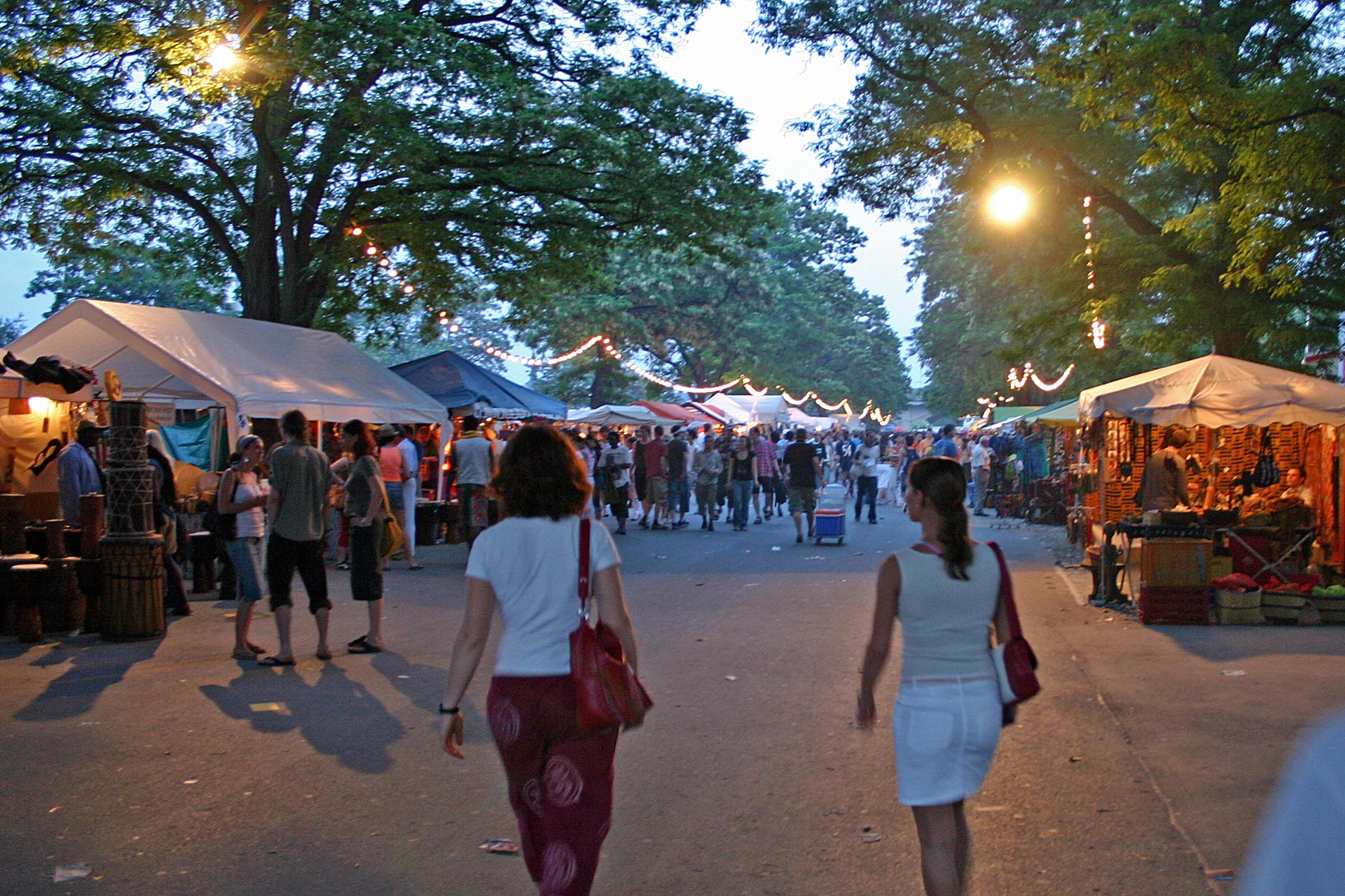 Würzburgs Africa Festival, May 2005